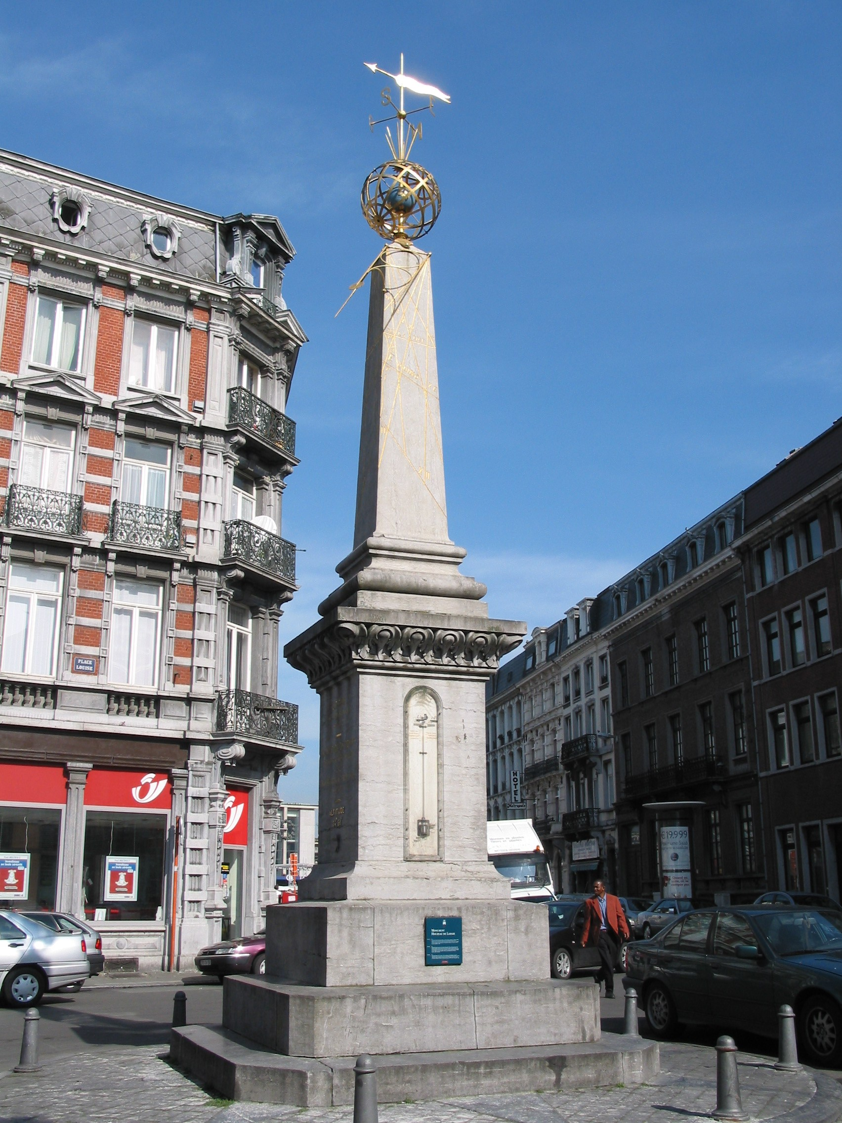 Mond (Belgium), the monument dedicated in memory of Jean-Charles Houzeau de Lehaie and his multiface sundial (XIXth century).